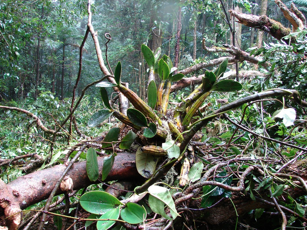 The fallen tree took down everything around, so all upper rainforest levels including the canopy were on the ground. You could find a lot of interesting plants (ferns, orchids...) here, what normally would be far up in the trees. You can see on the foreground Thelychiton speciosus syn. Dendrobium speciosum Common names: Rock orchid, King orchid, Cedarvale orchids .au/d-spe.html ID credit to Füzzy Mijmark. Widespread Australian orchid, perhaps the most popular orchid in the world today.(Ross Harvey). It is easy to grow in tropical to temperate climates. It can be grown on branches of trees or on rocks. The showy flowers grow in long racemes on straight or slowly arching, long, starchy stems with over 100 flowers per stem from August to October. Their colour varies from white to creamy yellow. Location: Goomburra section of Main Range National Park, Queensland, Australia